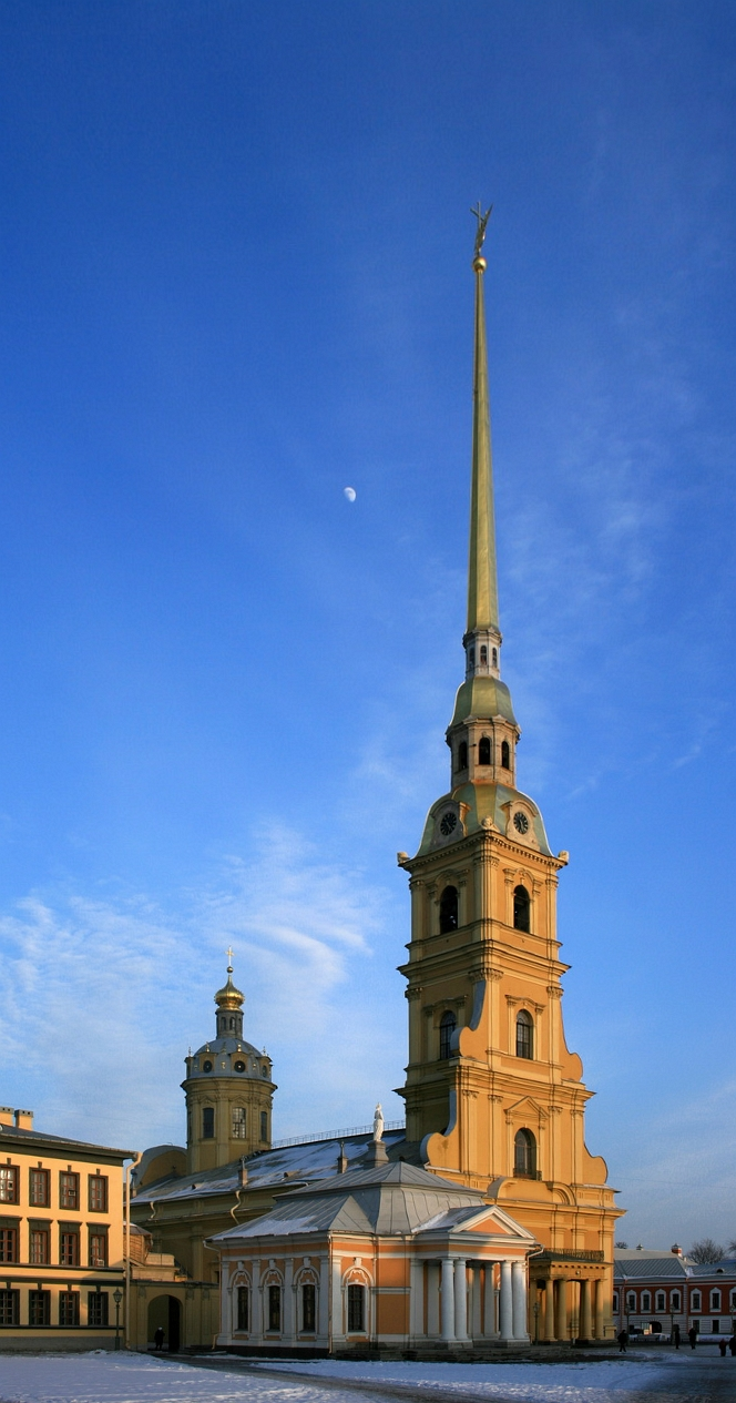 Peter and Paul Fortress